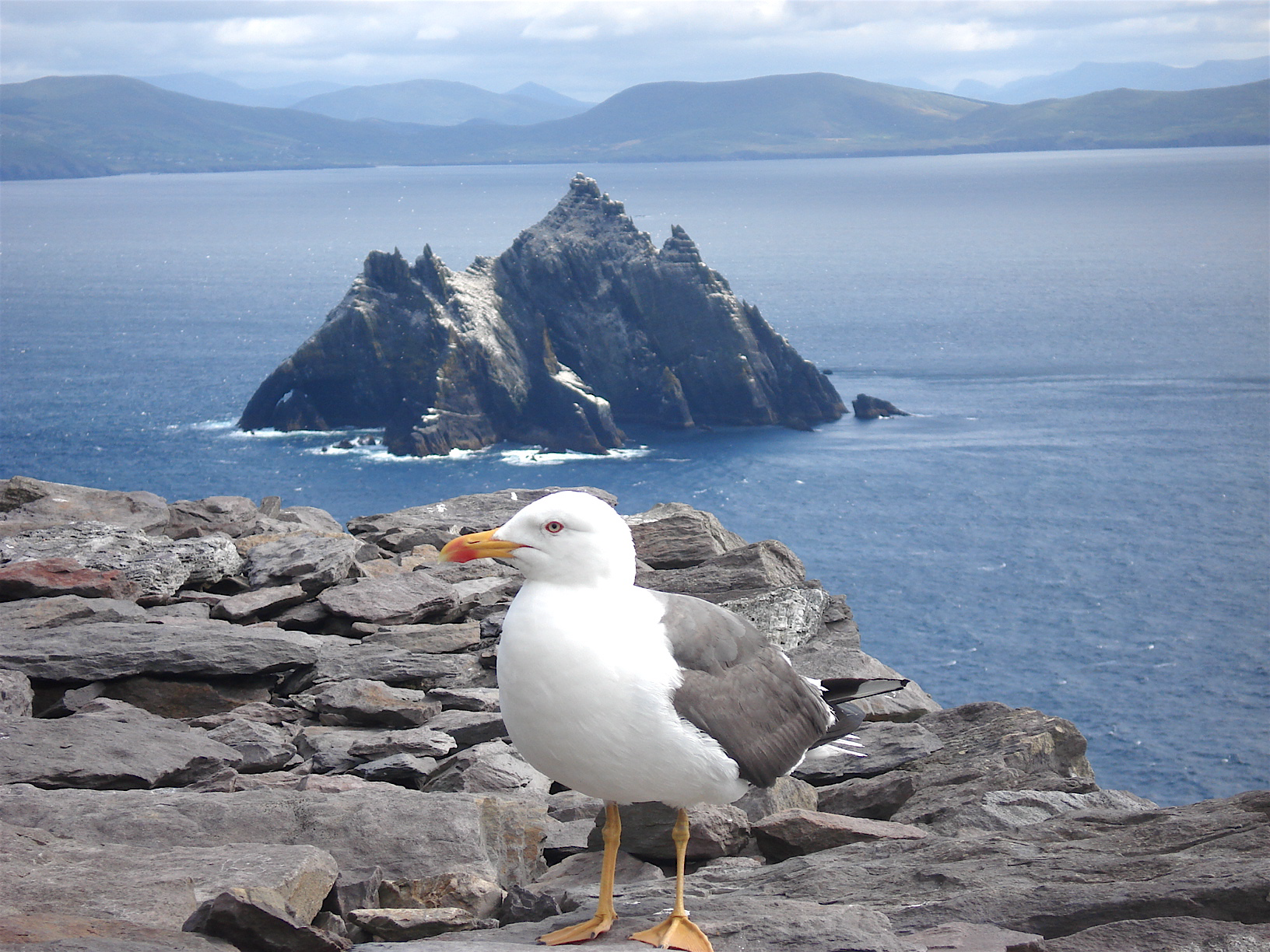 Skellig Islands: Little Skellig in the background, seen from Michael Skellig